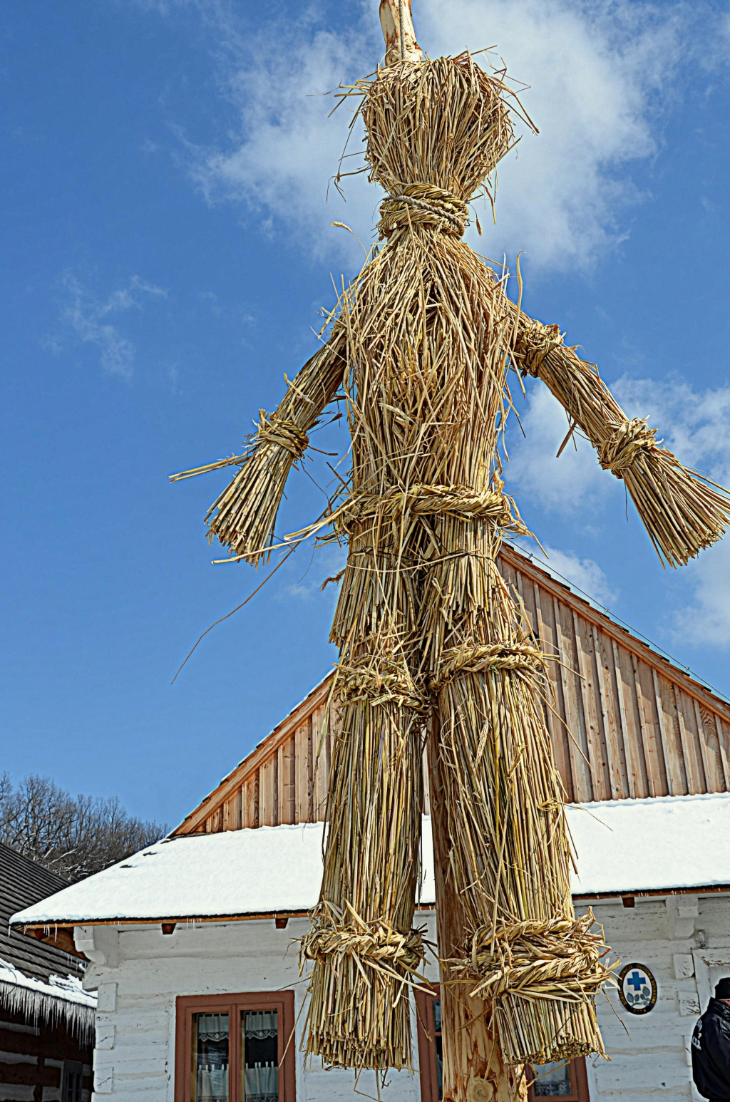 Palm Sunday in Sanok